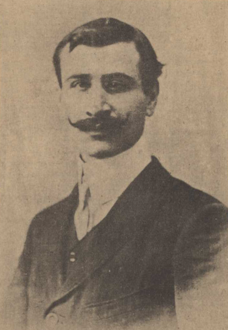 Daniel Varujan